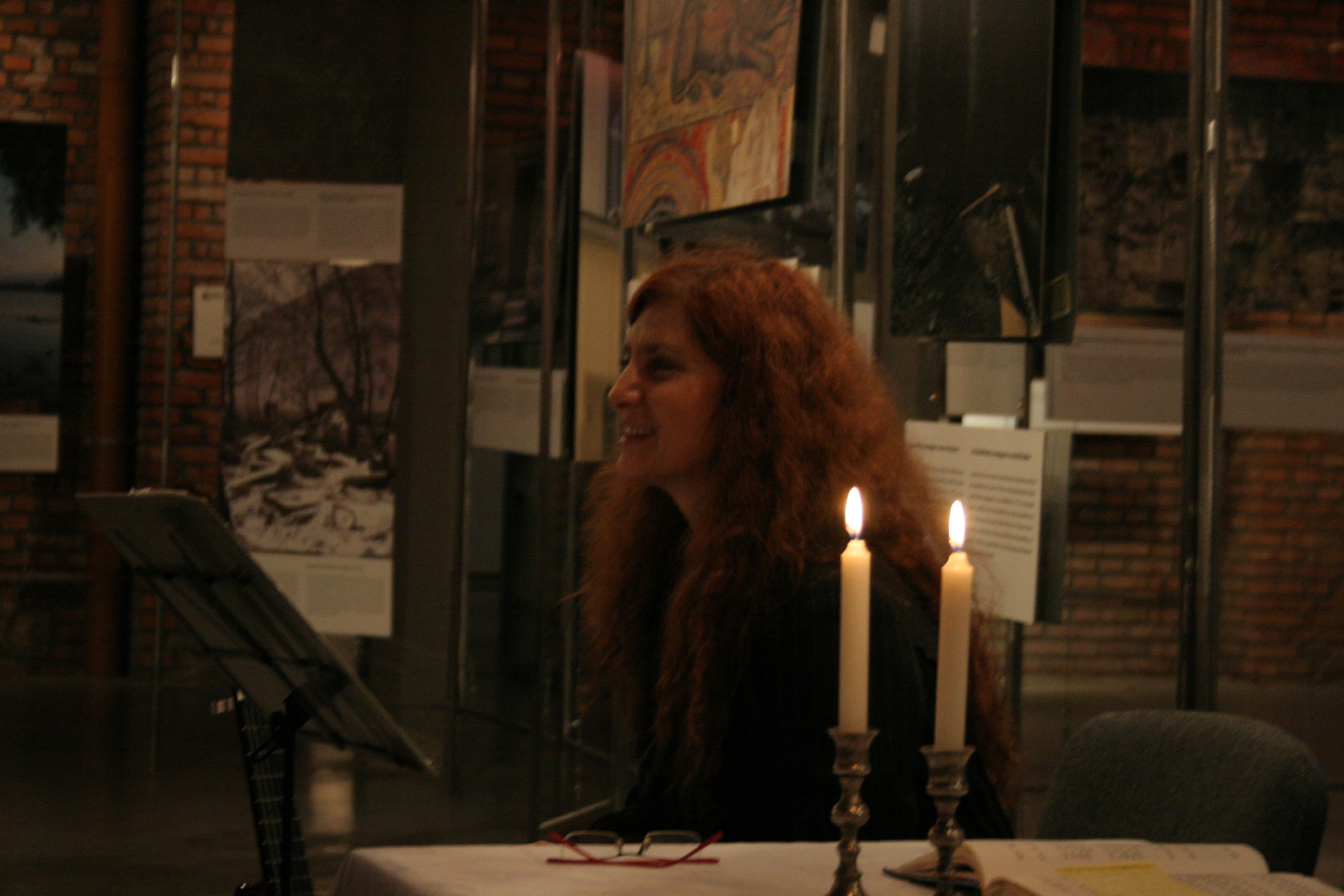 Rabbi Tanya Segal during a Beit Krakow Shabbat in the Galicia Jewish Museum.